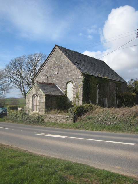 Chapel at Scarcewater The plaque on the gable end reads 'BCC 1869'; BCC = Bible Christian Chapel